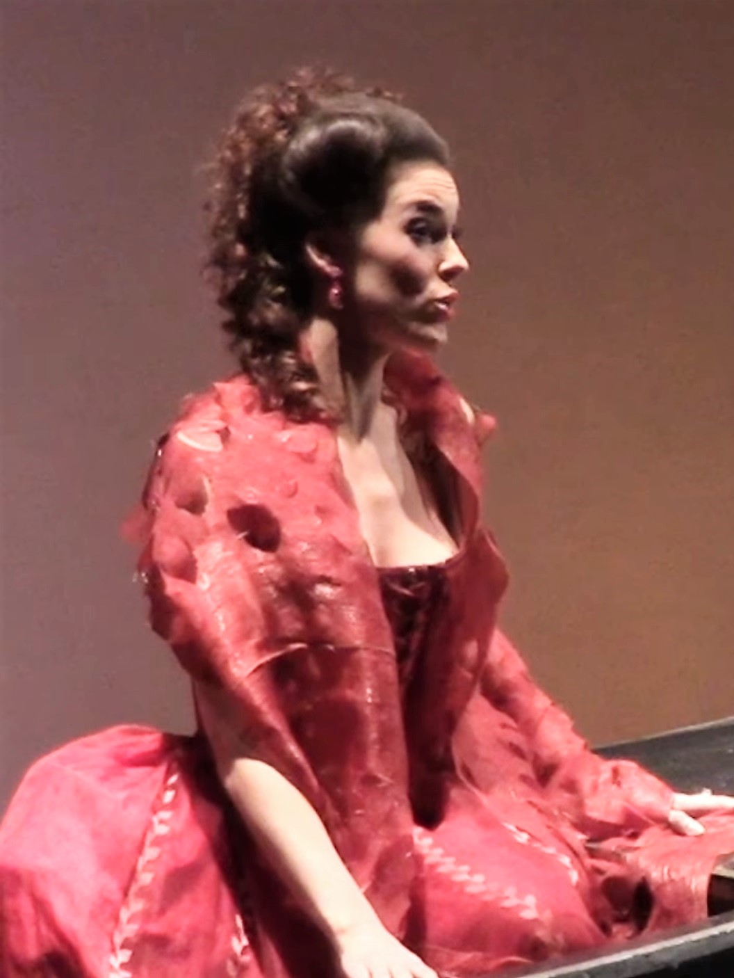 Czech soprano Zuzana Marková sings in the opera "Aspern" by Salvatore Sciarrino at the Teatro Malibran in Venice in 2013.